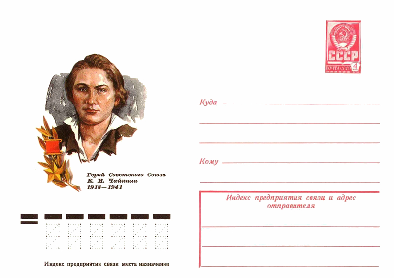 Illustrated stamped envelope with definitive stamp of the Soviet Union of 1978 featuring Hero of the Soviet Union Yelizaveta Chaikina.